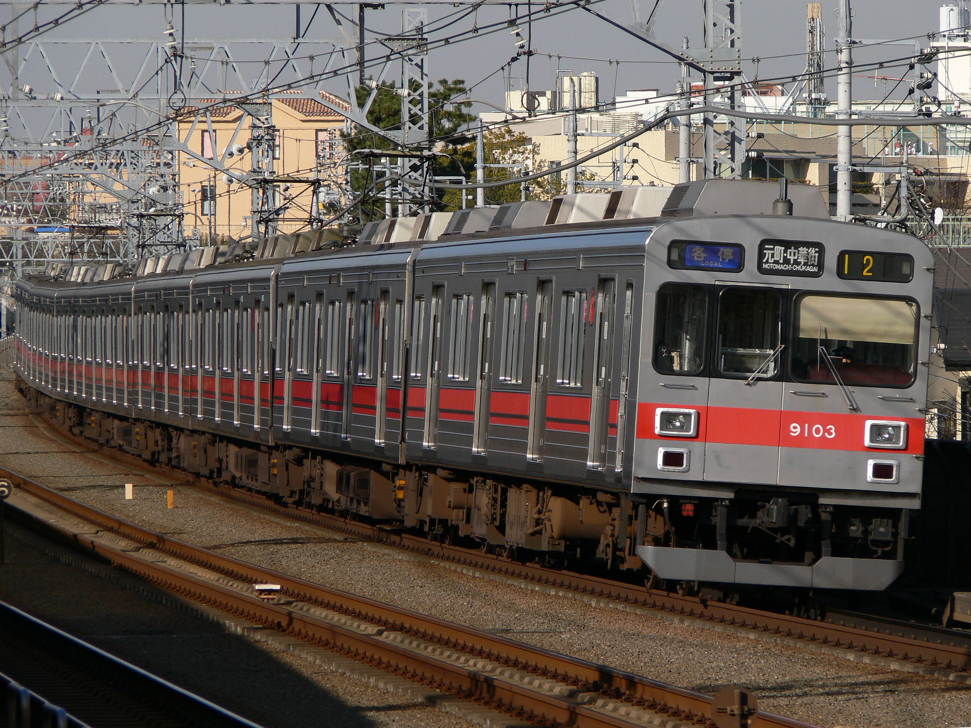 Tokyu 9000 series EMU set 9103 approaching Tamagawa Station in Tokyo, Japan